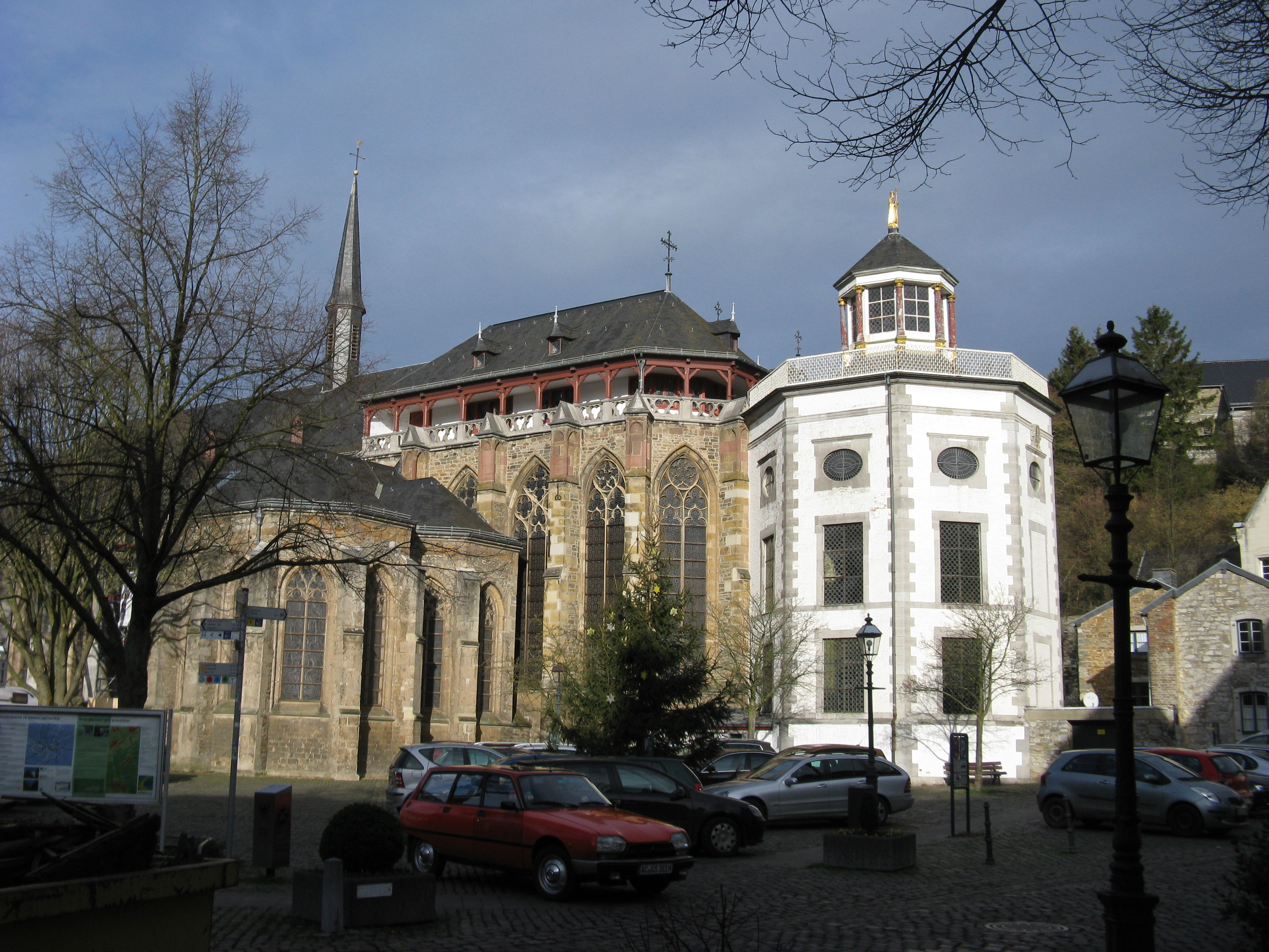 Kornelimünster (Aachen, Germany), former monastery, northern start point of the Eifelsteig